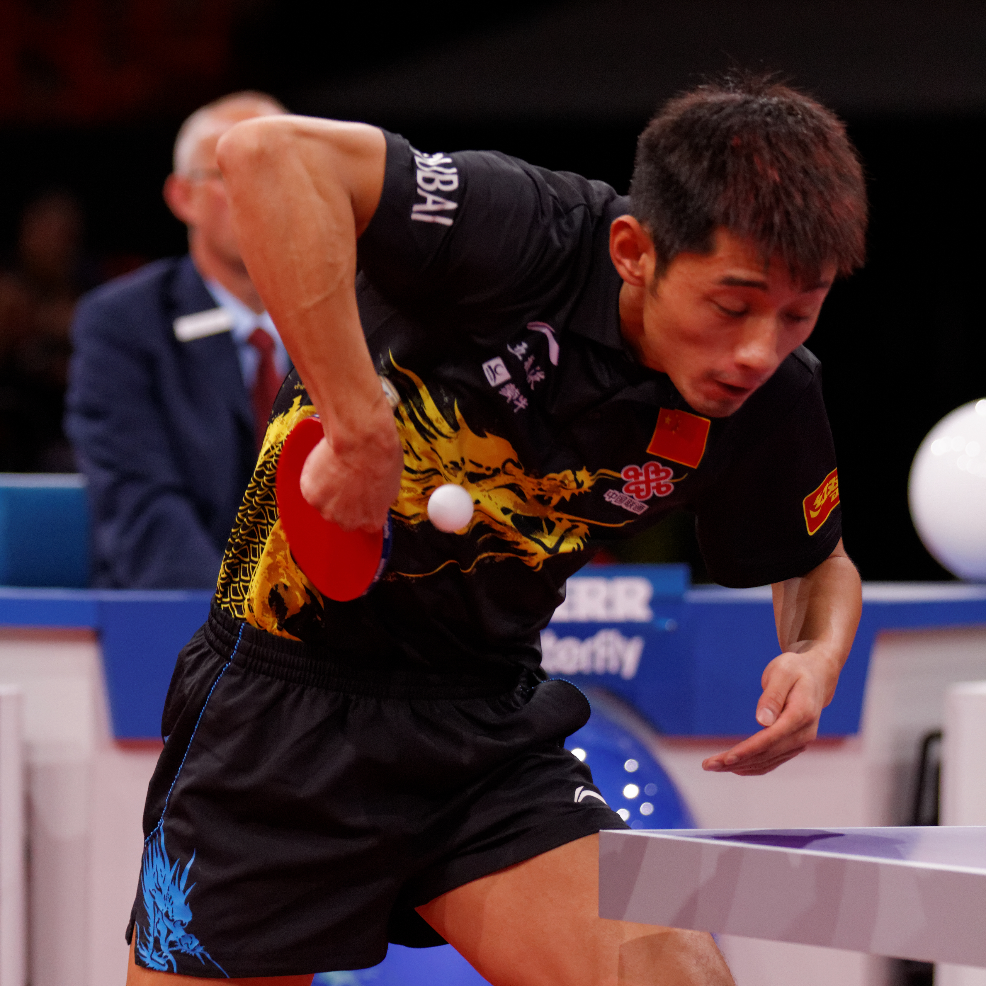 2013 World Table Tennis Championships, Paris.